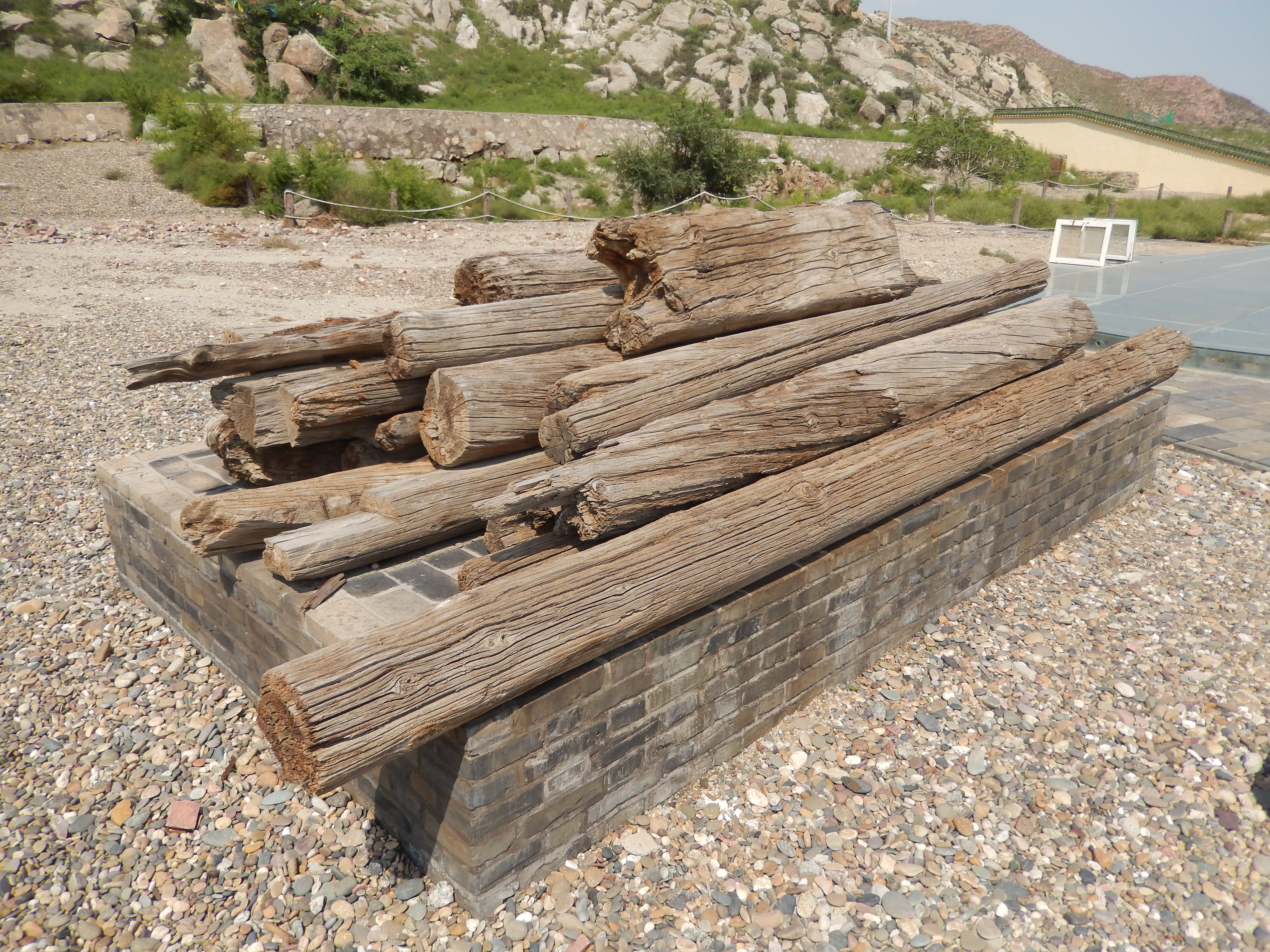 Wooden central post (cut into sections) from the Baisigou Square Pagoda in Helan Mountains of Ningxia. The pagoda was destroyed illegally in 1990, and the posts are now kept at the Twin Pagodas of Baisikou.